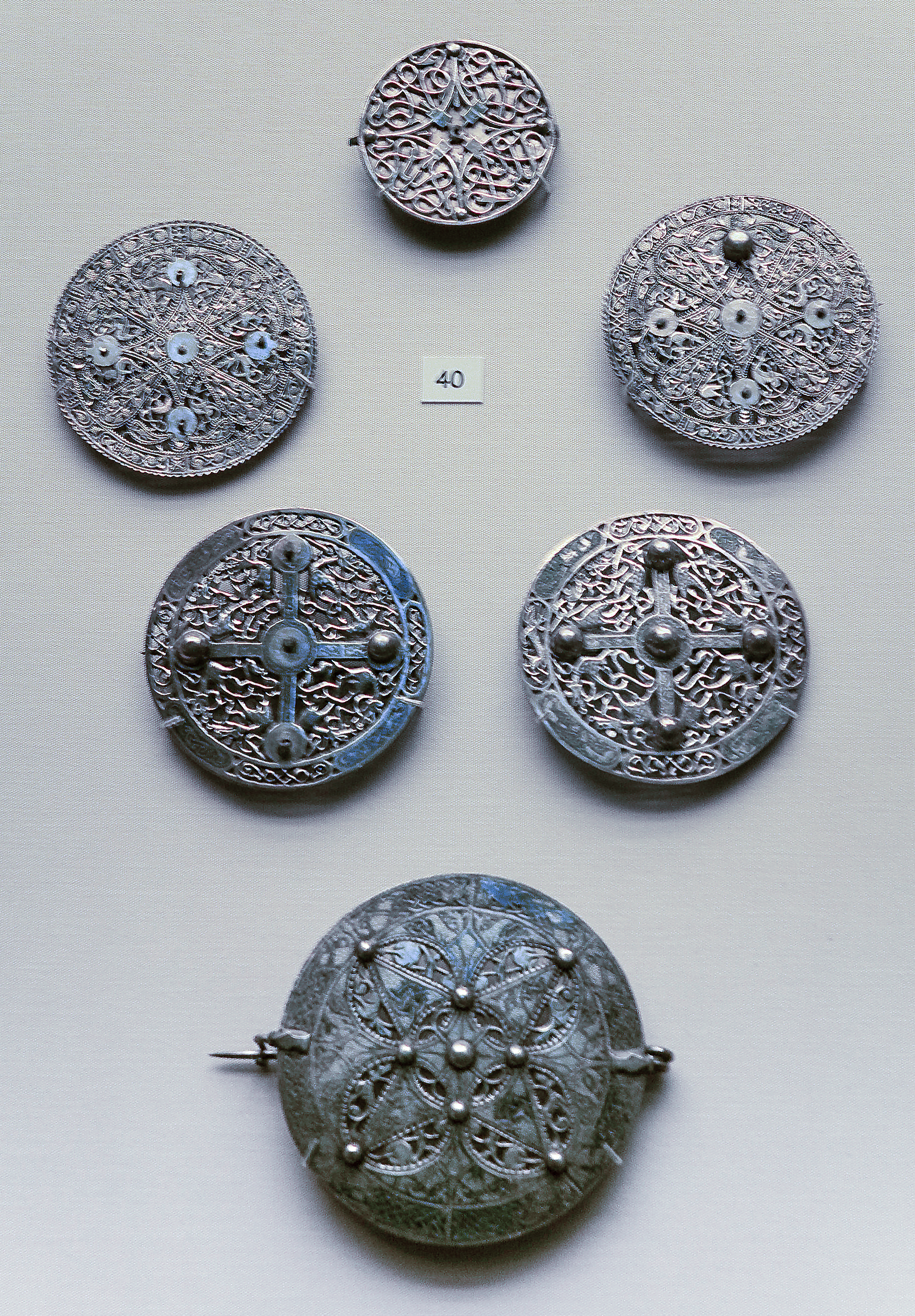 Celtic lockets. Anglo-Saxon silver disk brooches, from the Pentney Hoard BM page